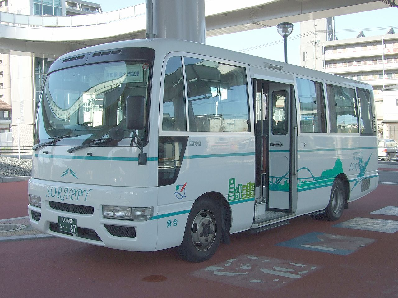 "SORAPPY", the airport bus operated between Kanda Town and Kitakyushu Airport. 苅田町 - 北九州空港間に運行される空港連絡バス「ソラッピー」